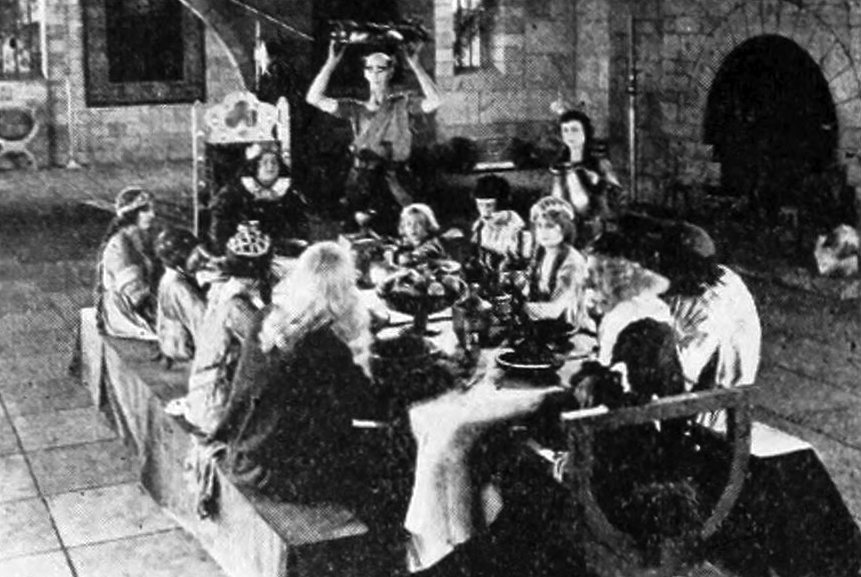 The banquet hall scene from The Little Knight (1923), starring Little Arthur Trimble and Bessie Love